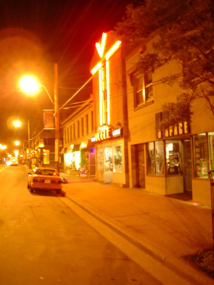 Picture of Gottingen Street, Halifax, Nova Scotia, looking north, between Falkland and Cornwallis Streets, August 2004. Taken by Waye Mason User:WayeMason all rights released.